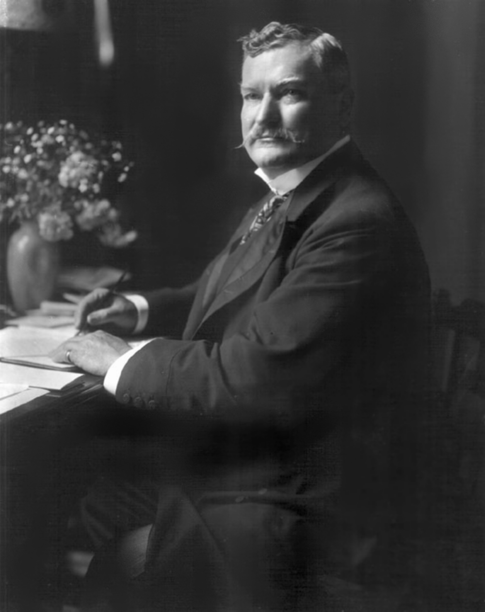 Sir Henry Edward McCallum (1852-1919), Governor of Lagos (1897-99), Natal (1901-07) and Ceylon (1907-13).